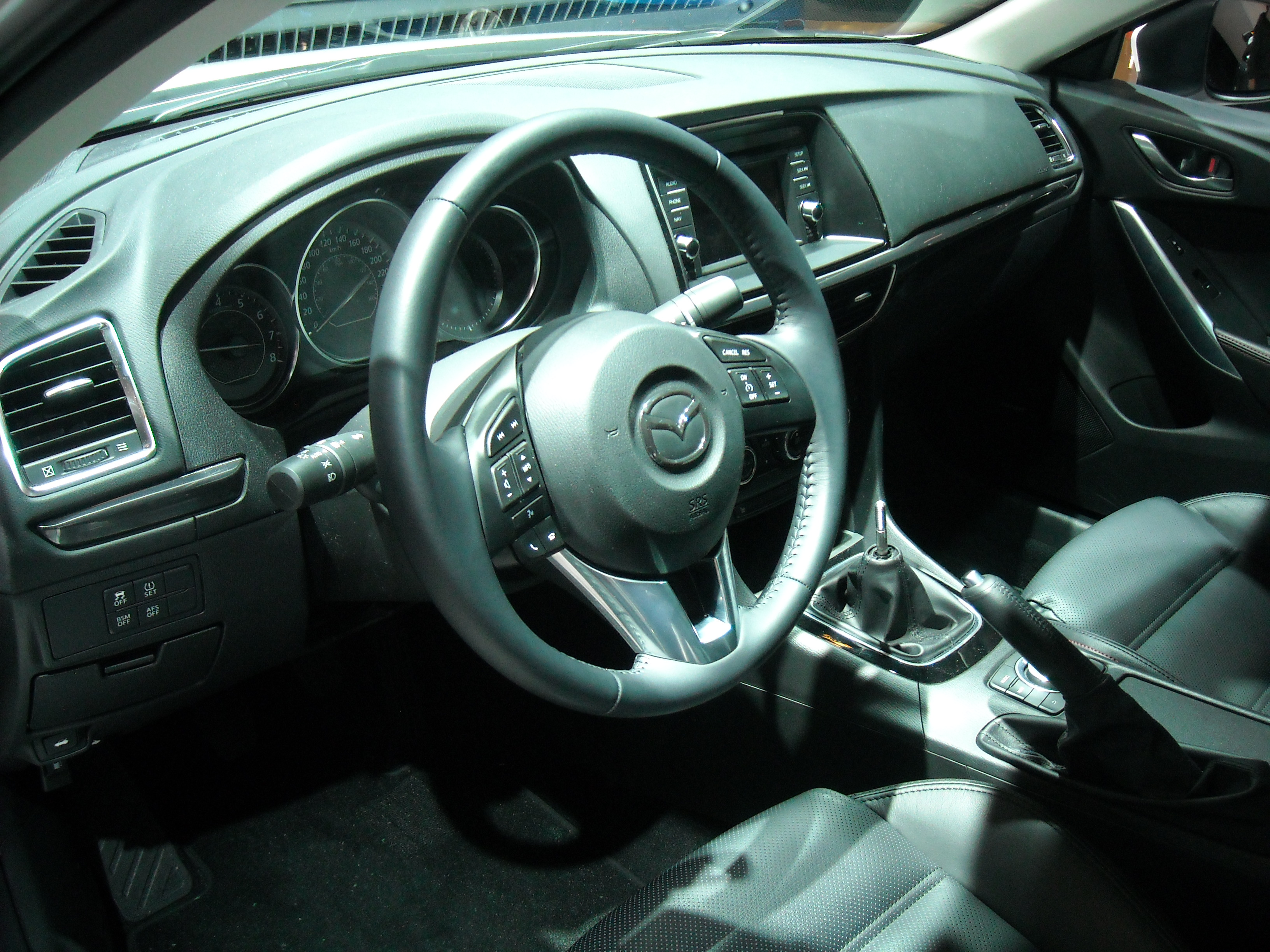 Interior of the 2013 Mazda 6 shown at the Montreal International Auto Show